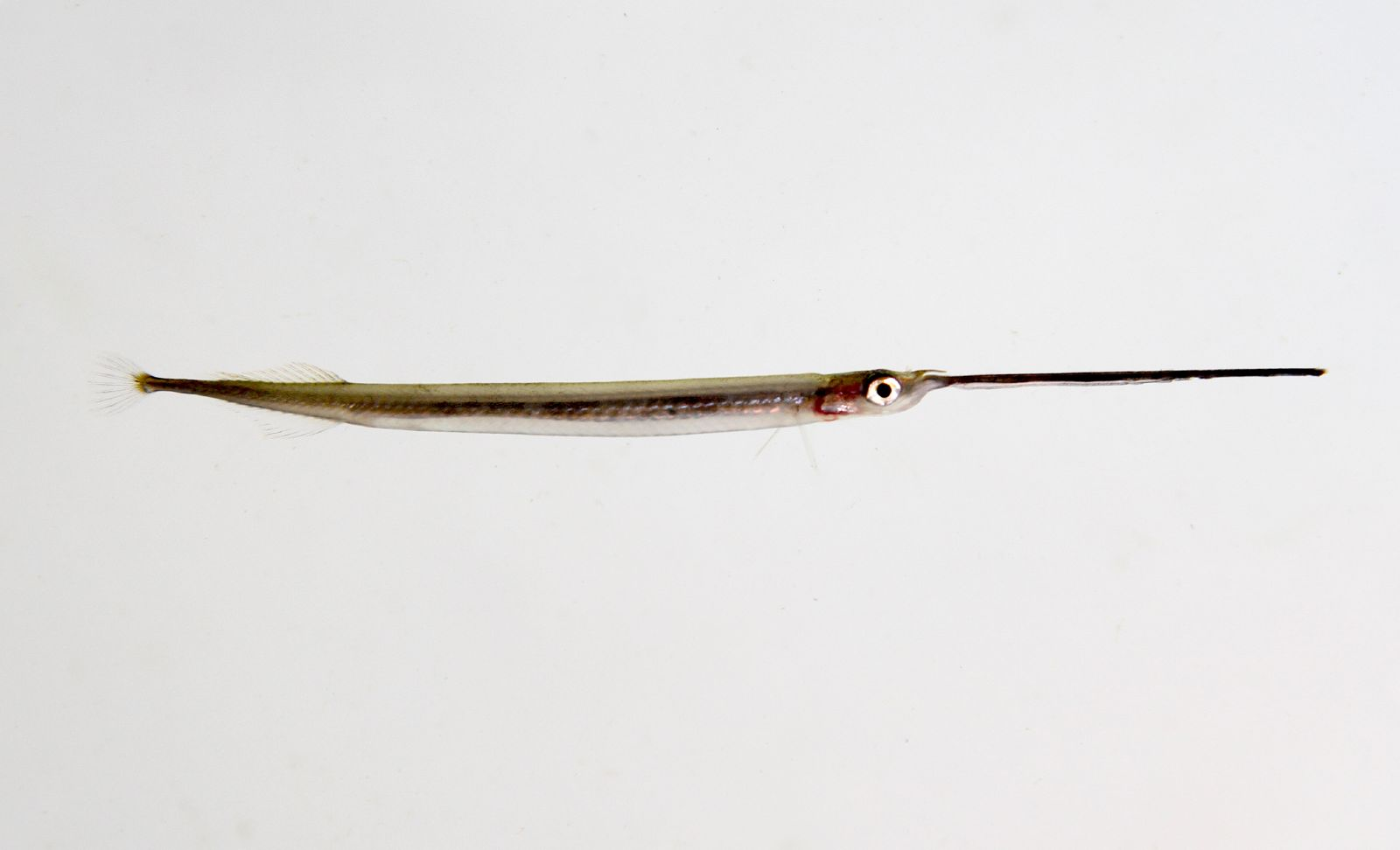 Potamorhaphis cf. guianensis